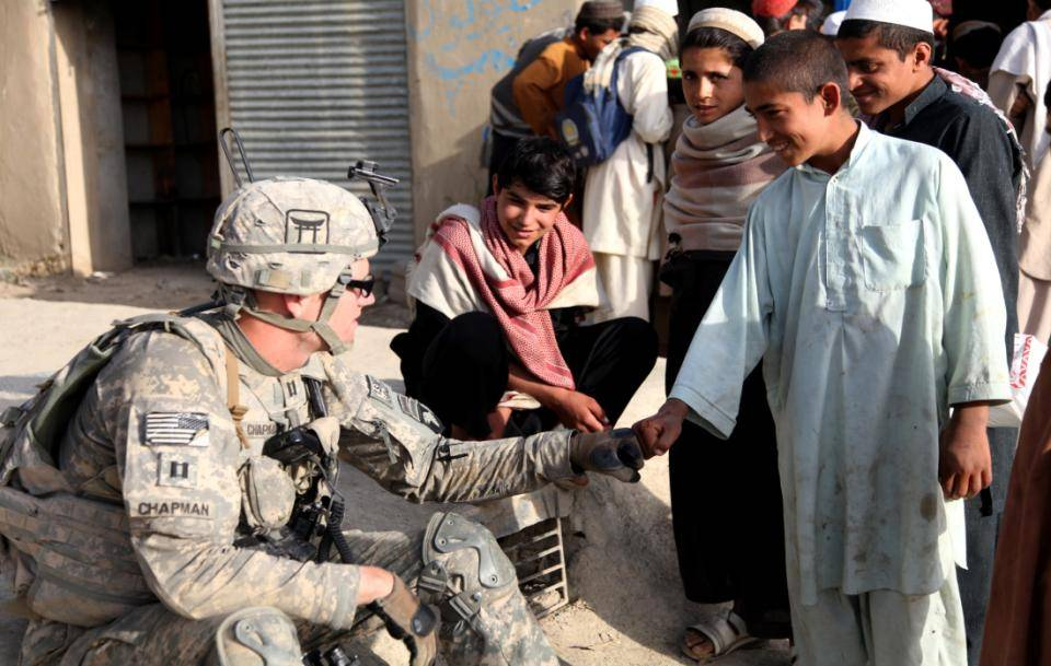 The following is the author's description of the photograph quoted directly from the photograph's Flickr page. "Army Capt. Stewart Chapman, commander of Delta Company, 3rd Battalion, 187th Infantry Regiment, 3rd Brigade, 101st Airborne Division Air Assault, shows Afghan children how to exchange a fist bump during a mission in Ya'qubi, Khowst Province, Afghanistan April 10, 2010. ( U.S. Army Photo by Sgt. Jeffrey Alexander/Released)(100410-A-0350A-012) "